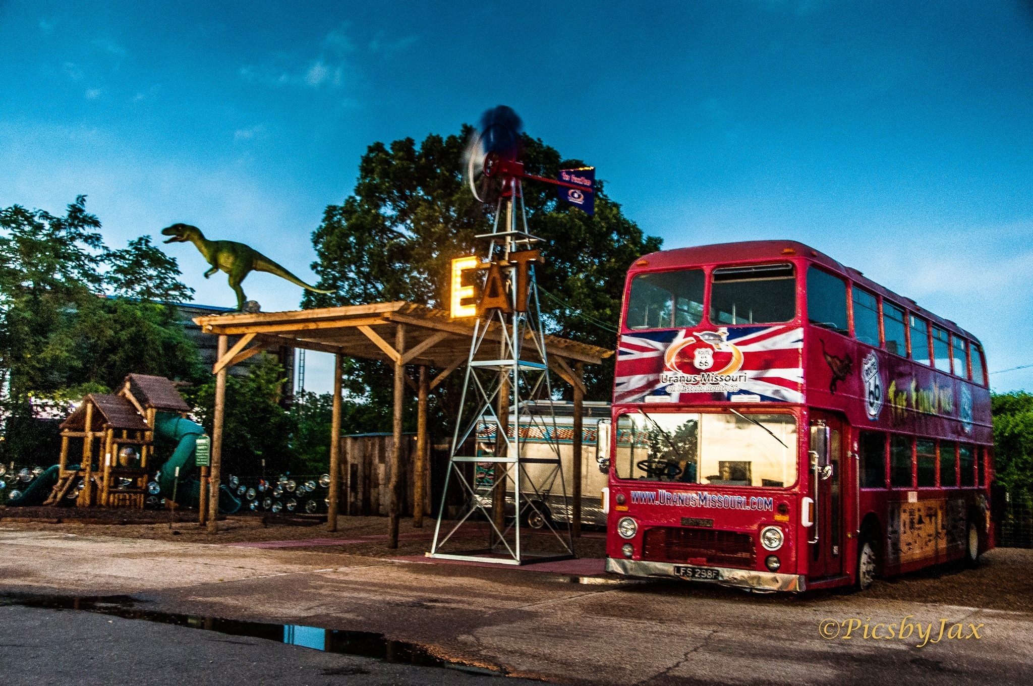 Part of the FunkYard at Uranus Missouri